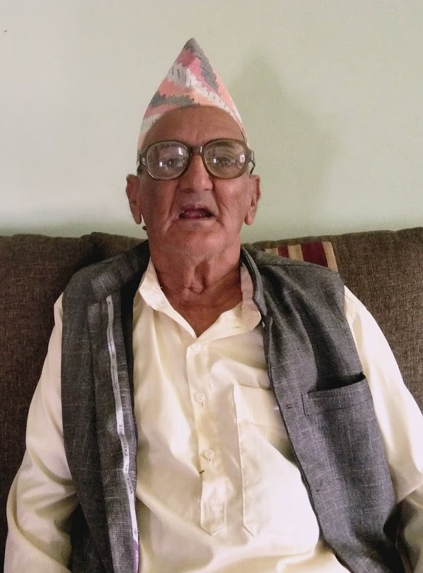 Geriatric